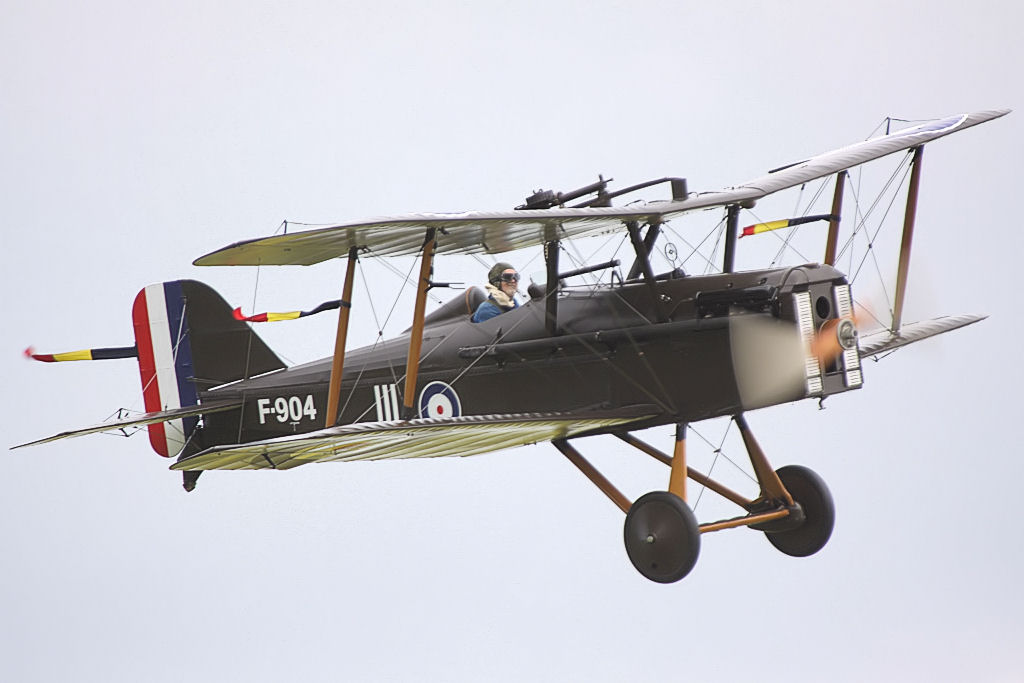 SE5A Replica - Shuttleworth Spring Airshow 2009